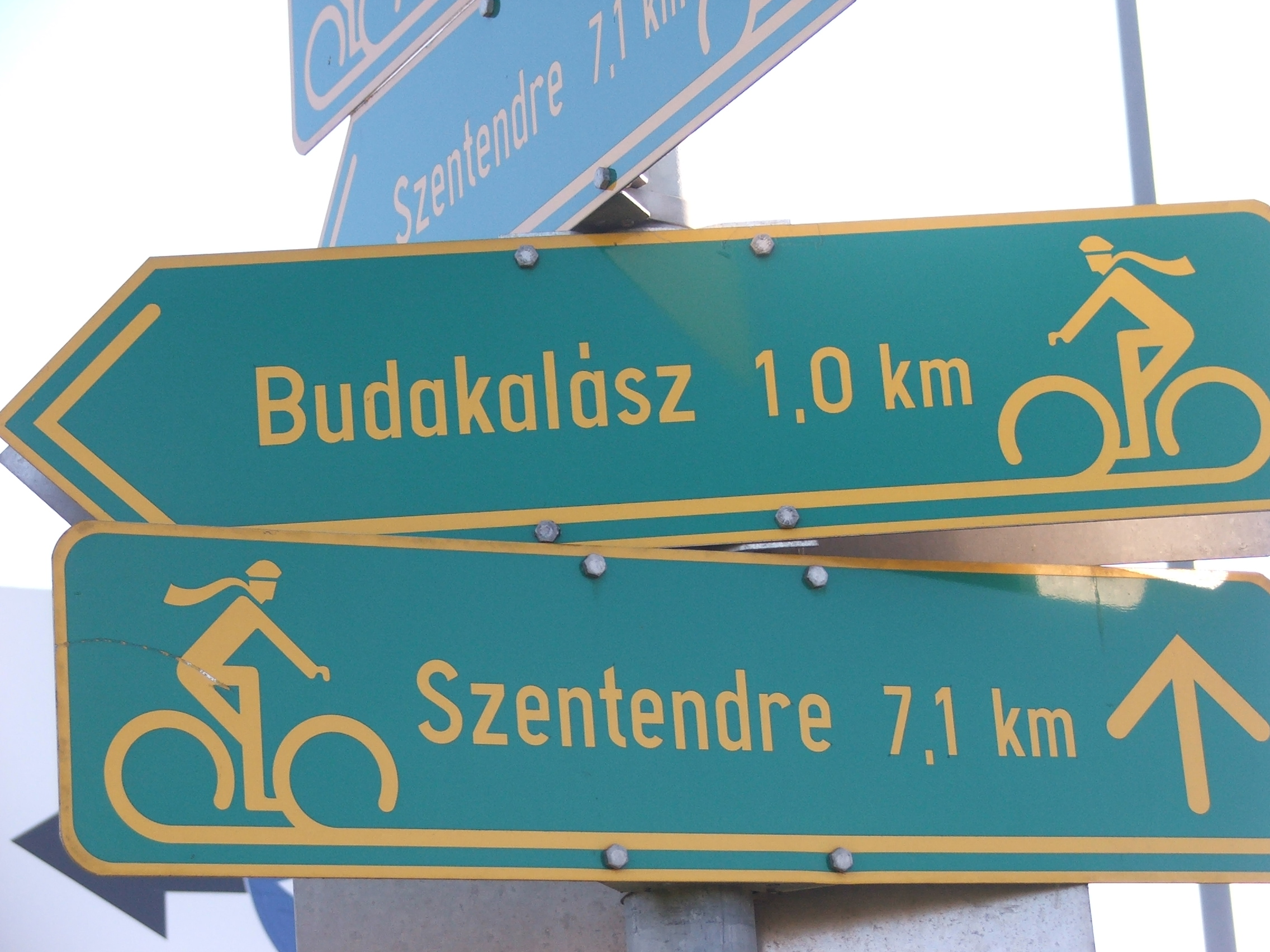 Danube Bikeway, Budapest, Hungary